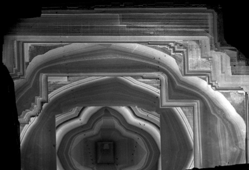 The diamond is a few millimeters across and is from the Bultfontien Diamond Mine.